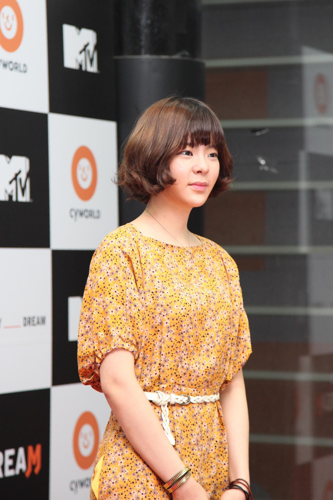 Jang Jae In in Cyworld Dream Music Festival.